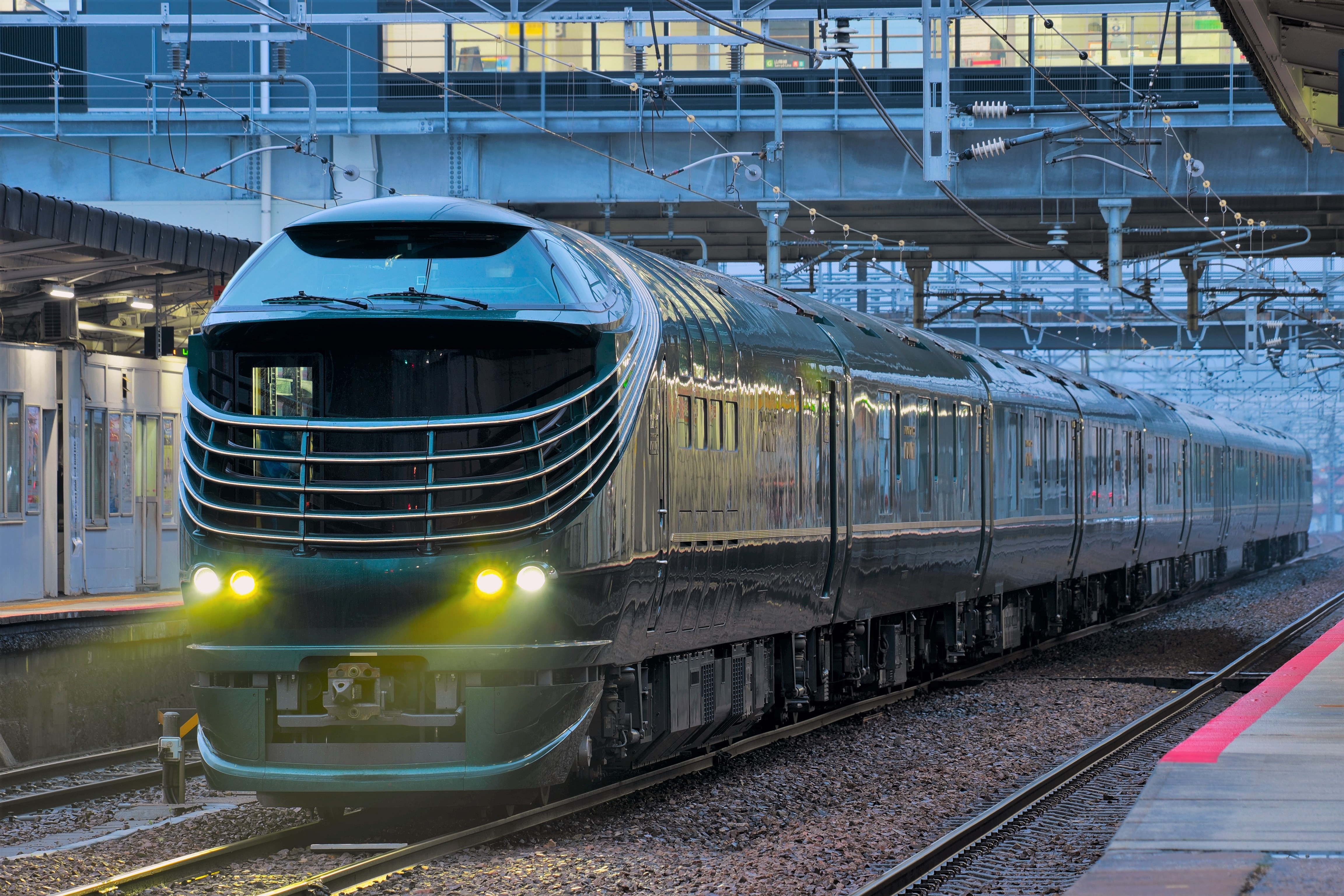 The JR West KiHa 87 series Twilight Express Mizukaze hybrid DMU cruise train passing through Saijo Station on a test run